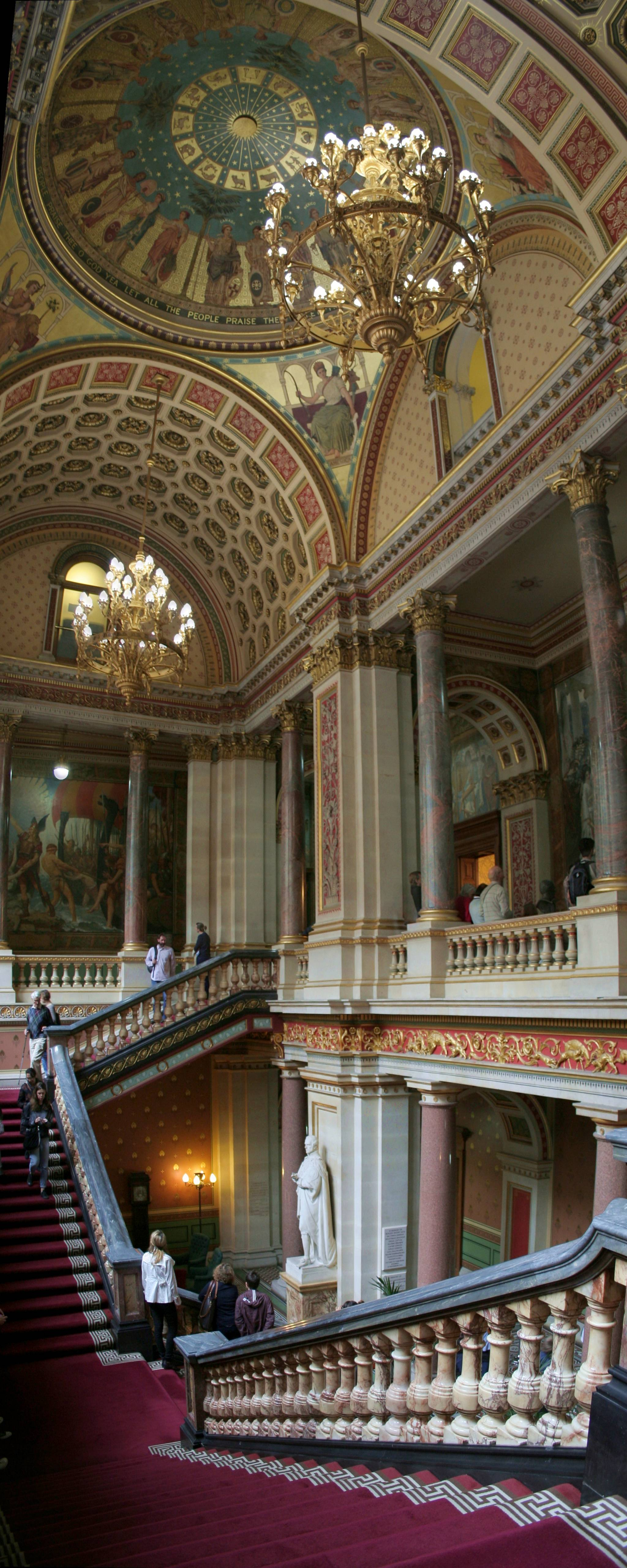 Stitched panorama of the Grand Staircase at the Foreign and Commonwealth Office in London in September 2013.